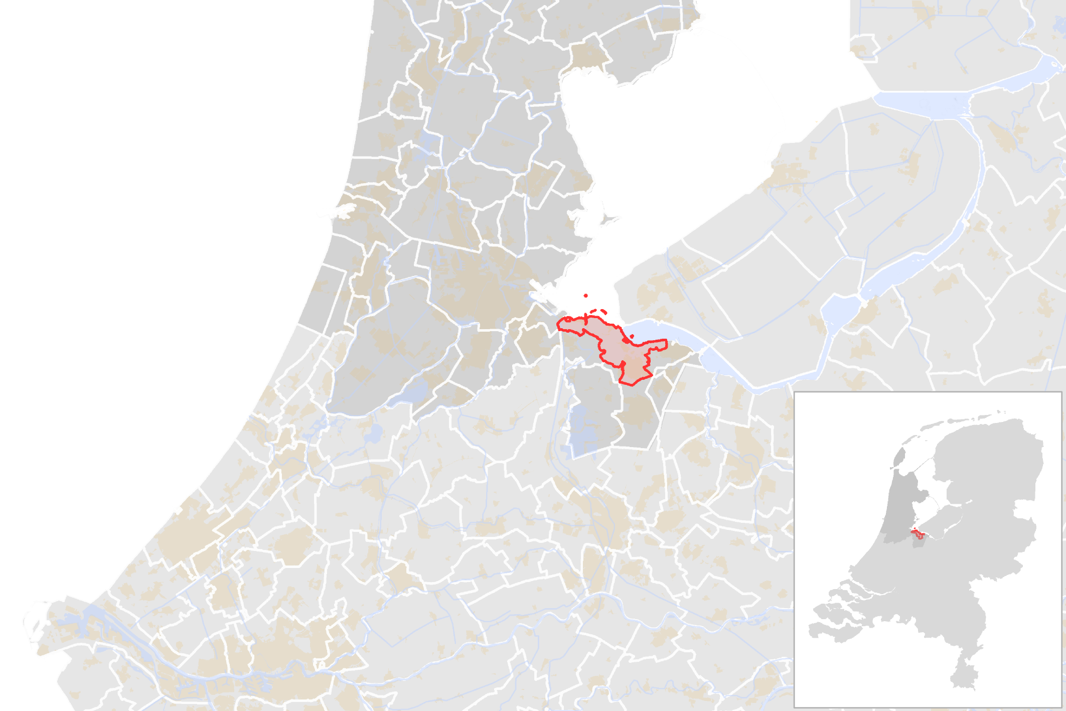 Locator map showing municipality boundary of one of the 390 Dutch municipalities (as of 2016)